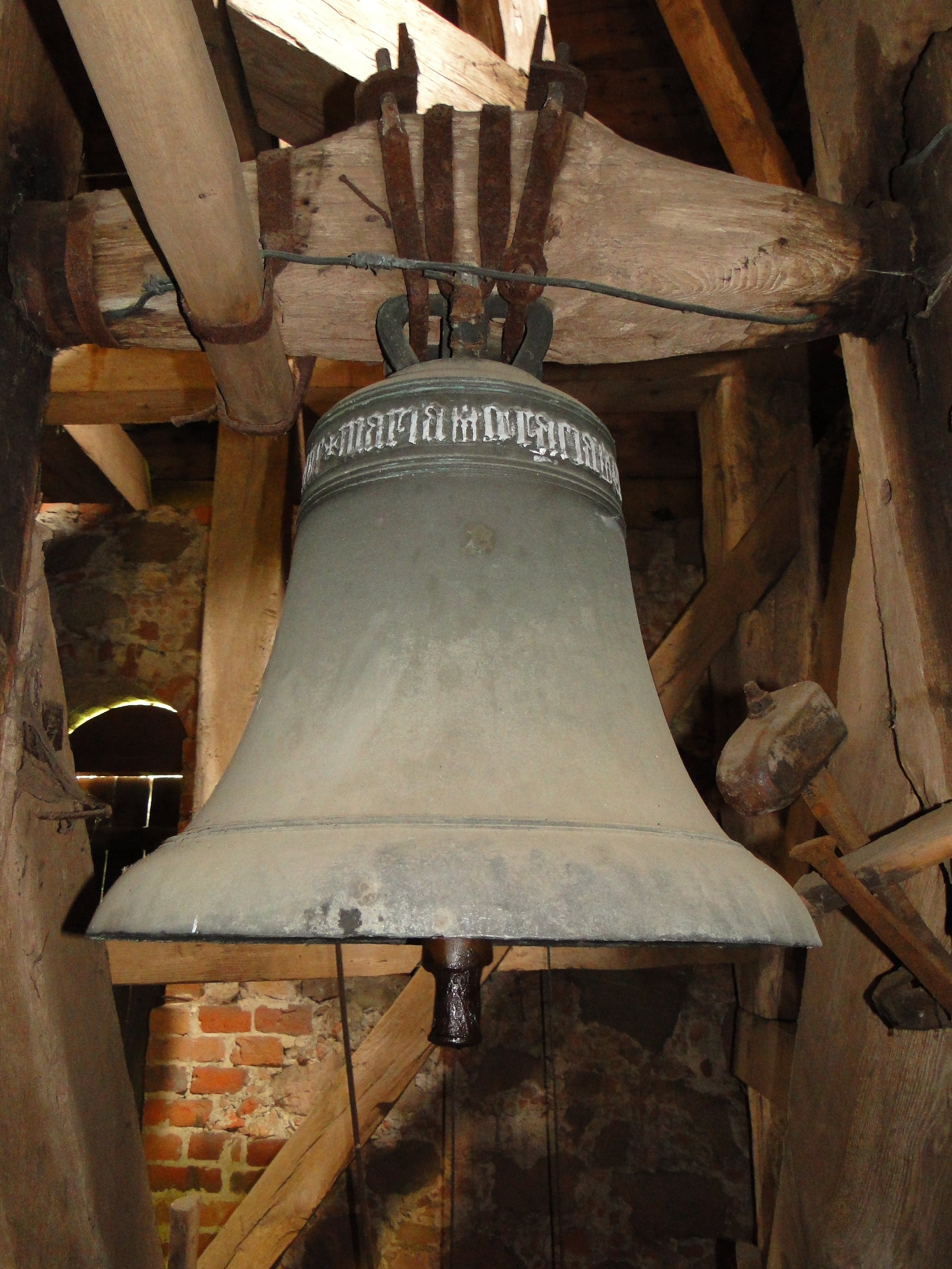 Church in Kladrum, district Ludwigslust-Parchim, Mecklenburg-Vorpommern, Germany